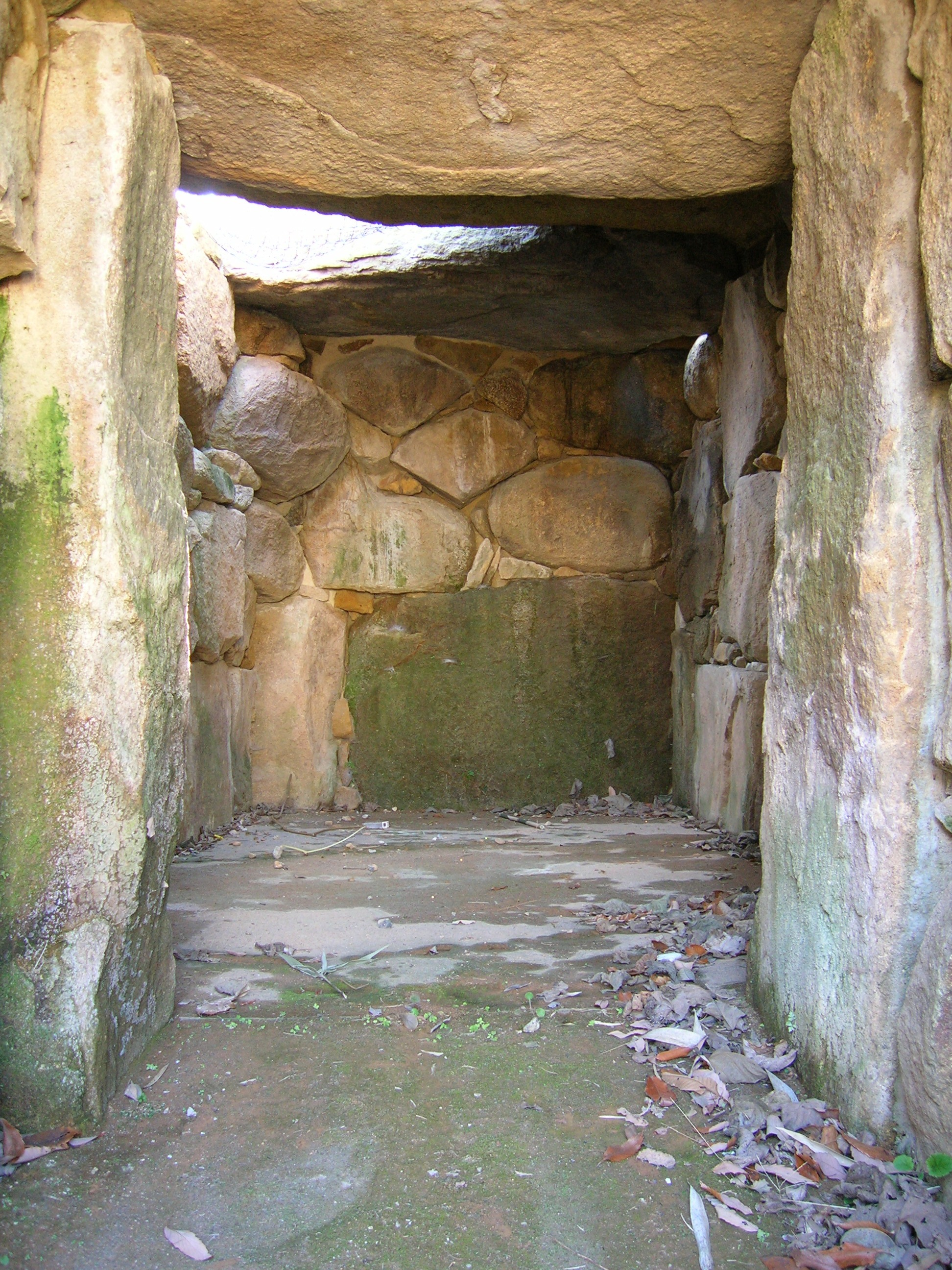 Iwaya kofun. Loc: Komaki city, Aichi Prefecture, Japan. 岩屋古墳、羨道から見た横穴式石室の内部。 撮影場所 愛知県小牧市大字岩崎